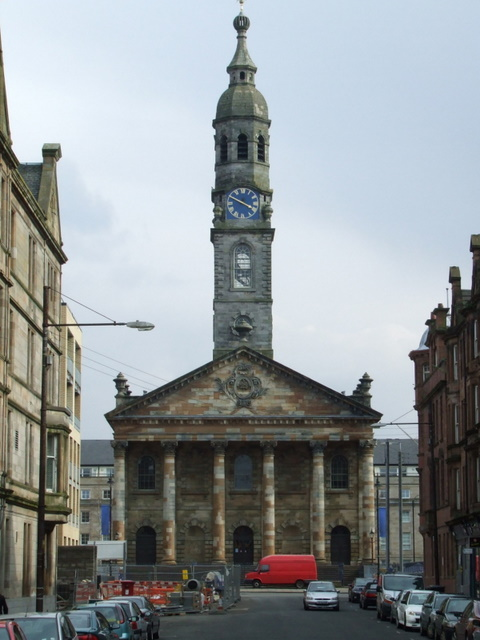 St Andrews Church Looking up St Andrews Street to St Andrews Square, between Saltmarket and The Barras.